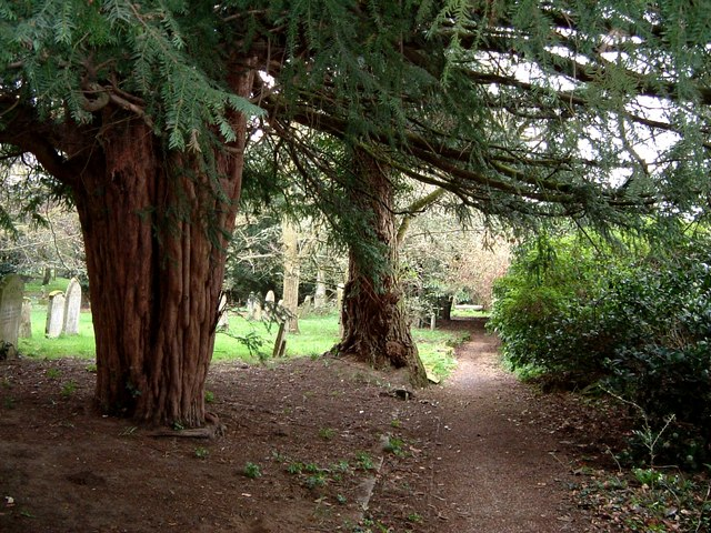 Old yews line a secluded pathway in the churchyard of St.Andrews, Ampthill